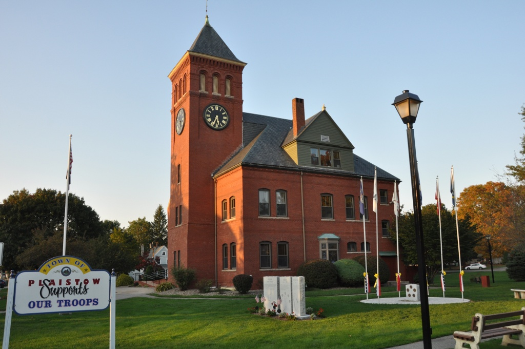 The town hall of Plaistow, New Hampshire.